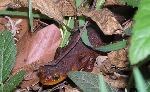 California Newt (Taricha torosa) near Trabuco Canyon, in the Santa Ana Mountains, Southern California. Observed in riparian habitat along Holy Jim Creek.